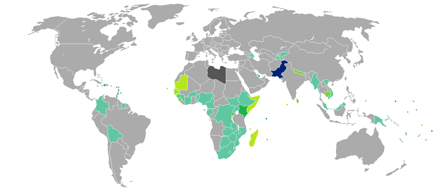 Visa requirements for Pakistani citizens Pakistan Visa free access Visa on arrival eVisa Visa available both on arrival or online Visa required